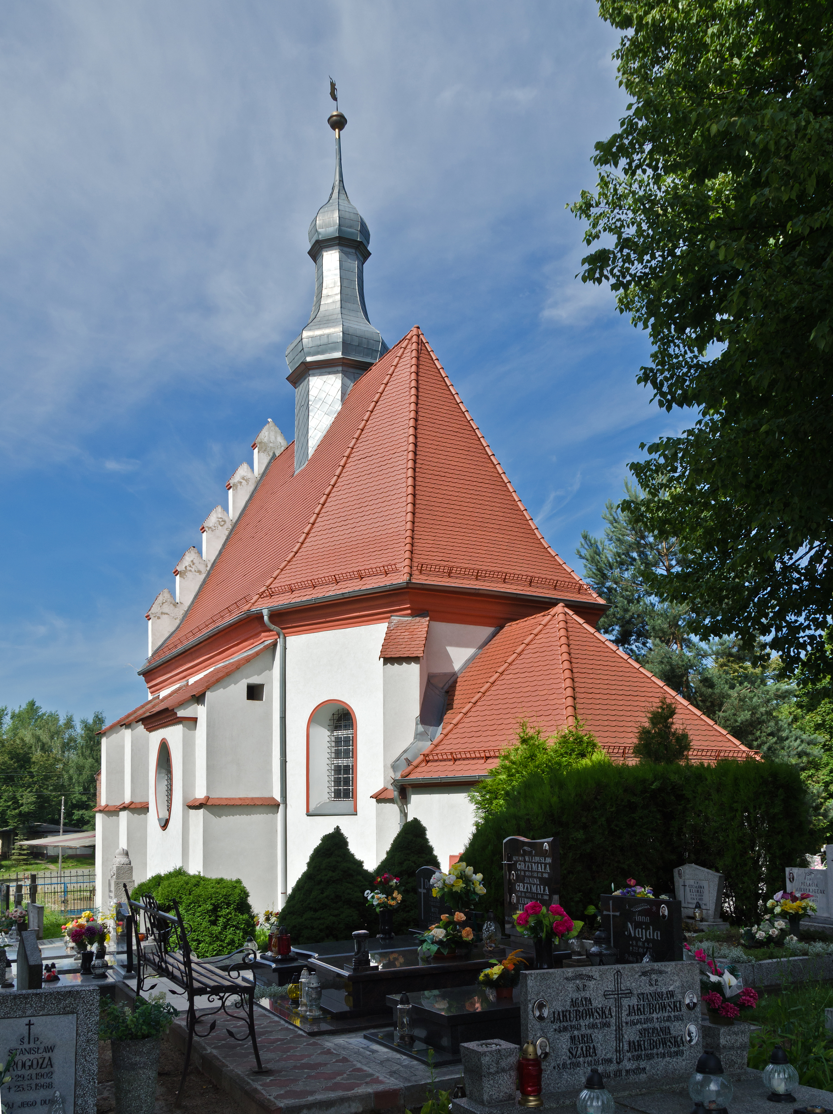 Church of the Holy Cross in Nysa